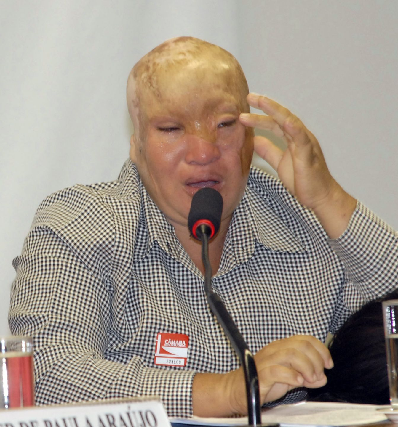 The president of the Scalped Women's Association in Brazil. The woman pictured was scalped. Accidental scalping is relatively common among boat users in the Amazon region, when a woman's hair is accidentally caught in the motor.